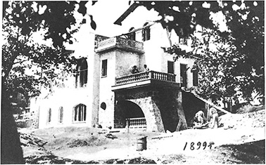 Chekhov’s house at Yalta